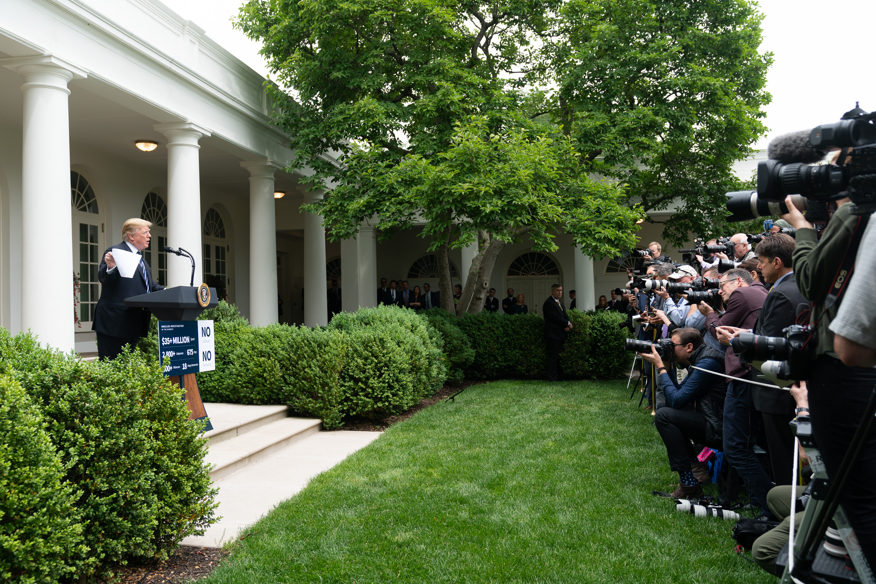 President Donald J. Trump addresses his remarks in the Rose Garden following his meeting with Congressional Democrats Wednesday, May 22, 2019, in the Cabinet Room of the White House. President Trump addressed reporters in response to comments made earlier in the day by House Speaker Nancy Pelosi. (Official White House Photo by Shealah Craighead)